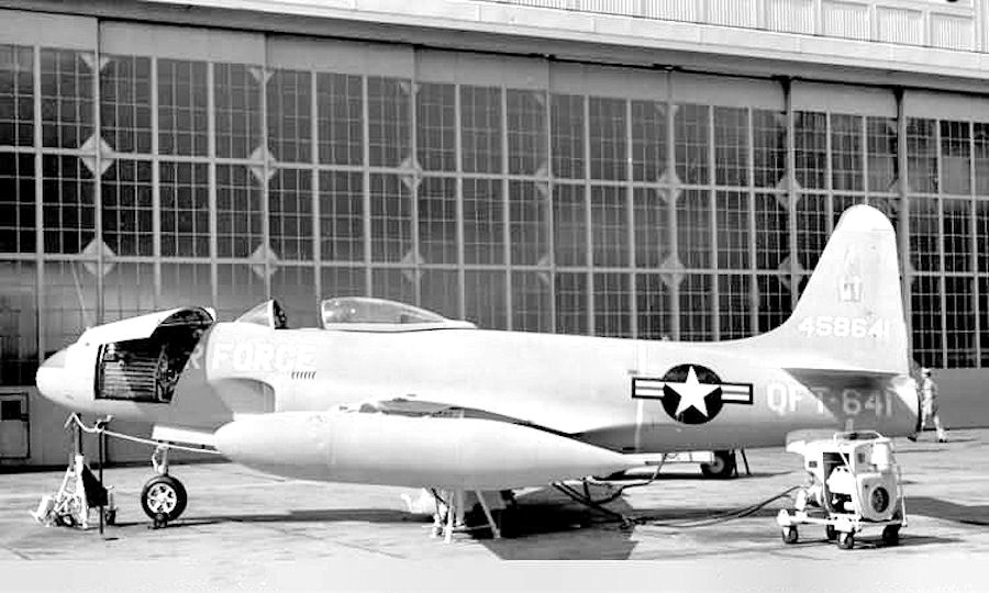 Lockheed P-80B-1-LO Shooting Star 44-58641 as QF-80 drone, 1951, Eglin AFB, Florida